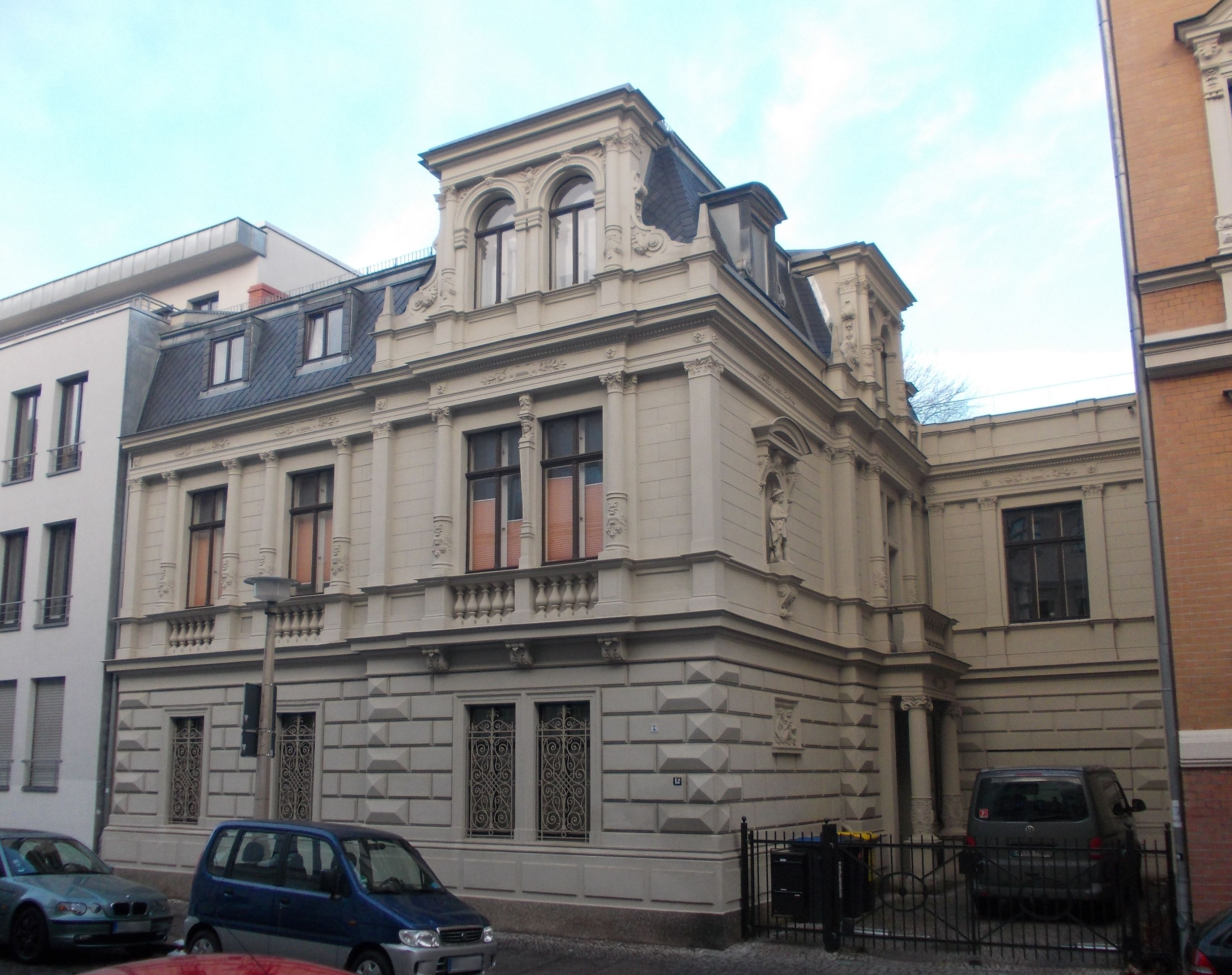 Villa Kulisch, No. 12, Weidenplan in Halle (Saale), Saxony-Anhalt